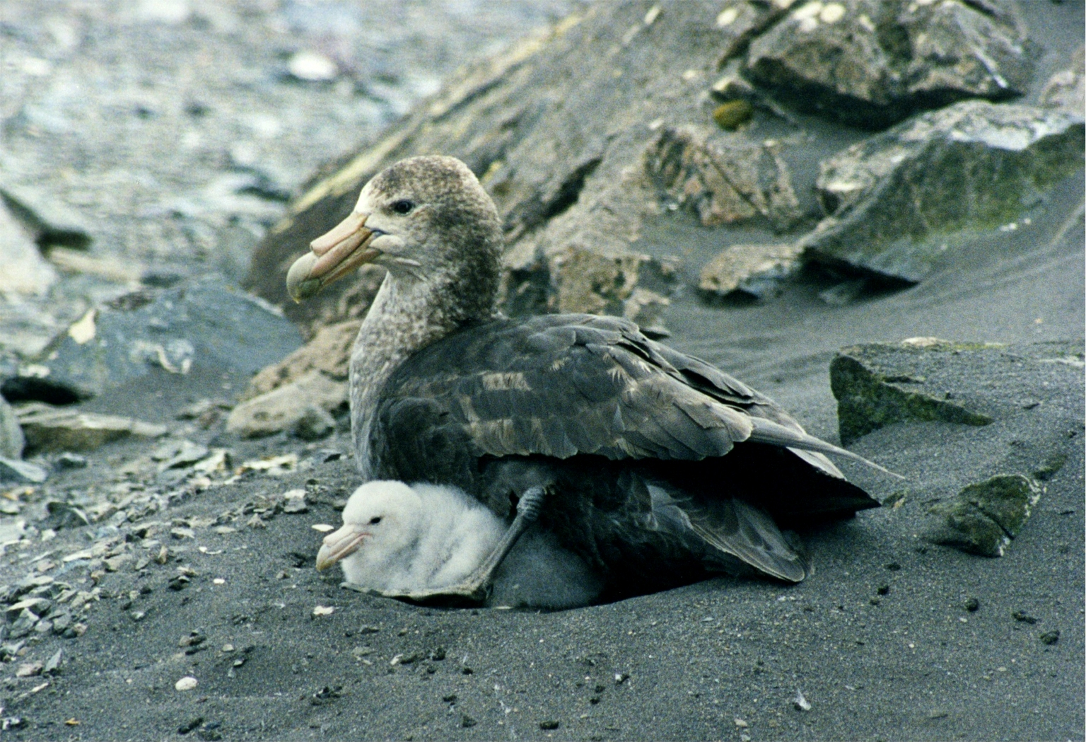 Giant petrel with chicks (Macronectes giganteus)